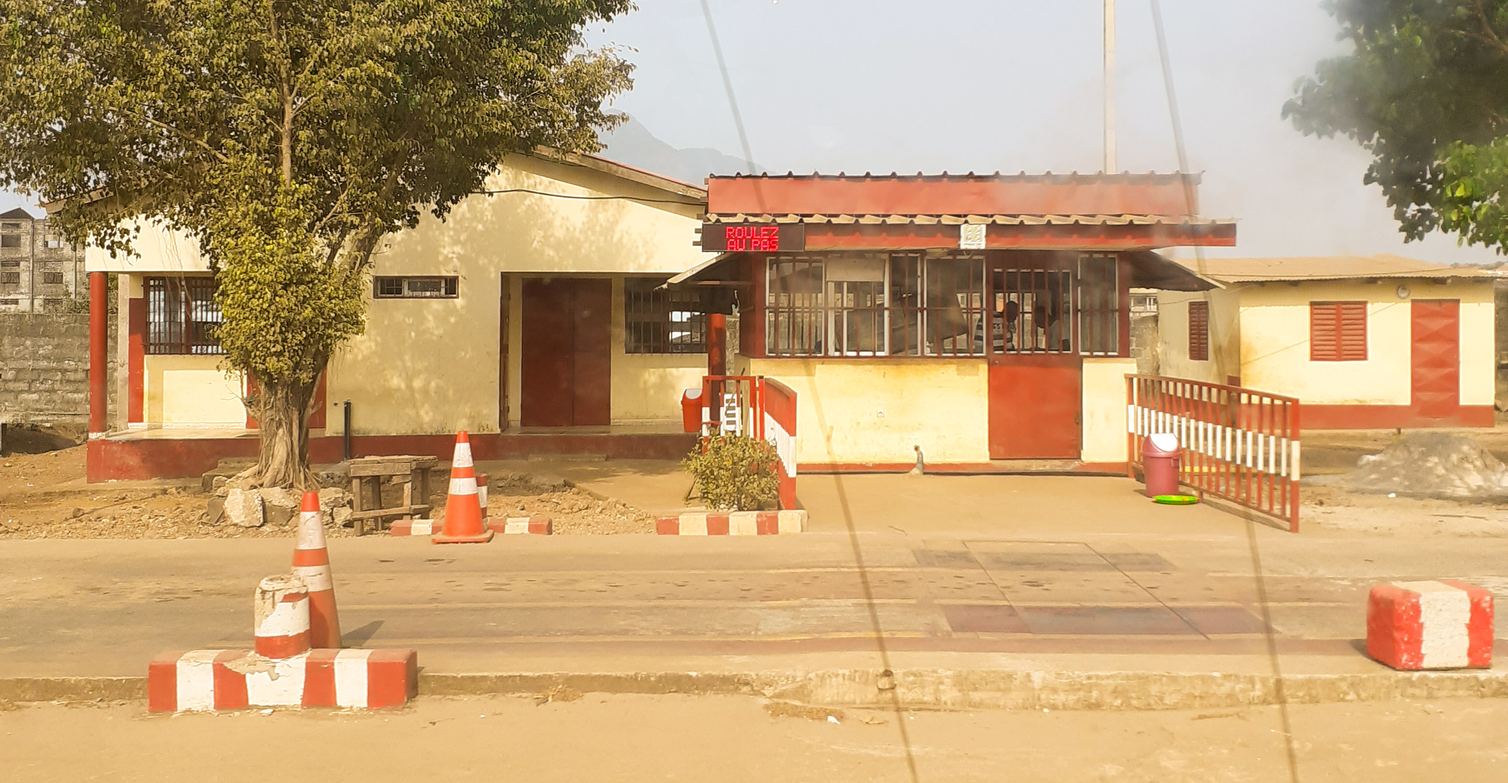 This is an image with the theme "Africa on the Move or Transport" from: Guinea